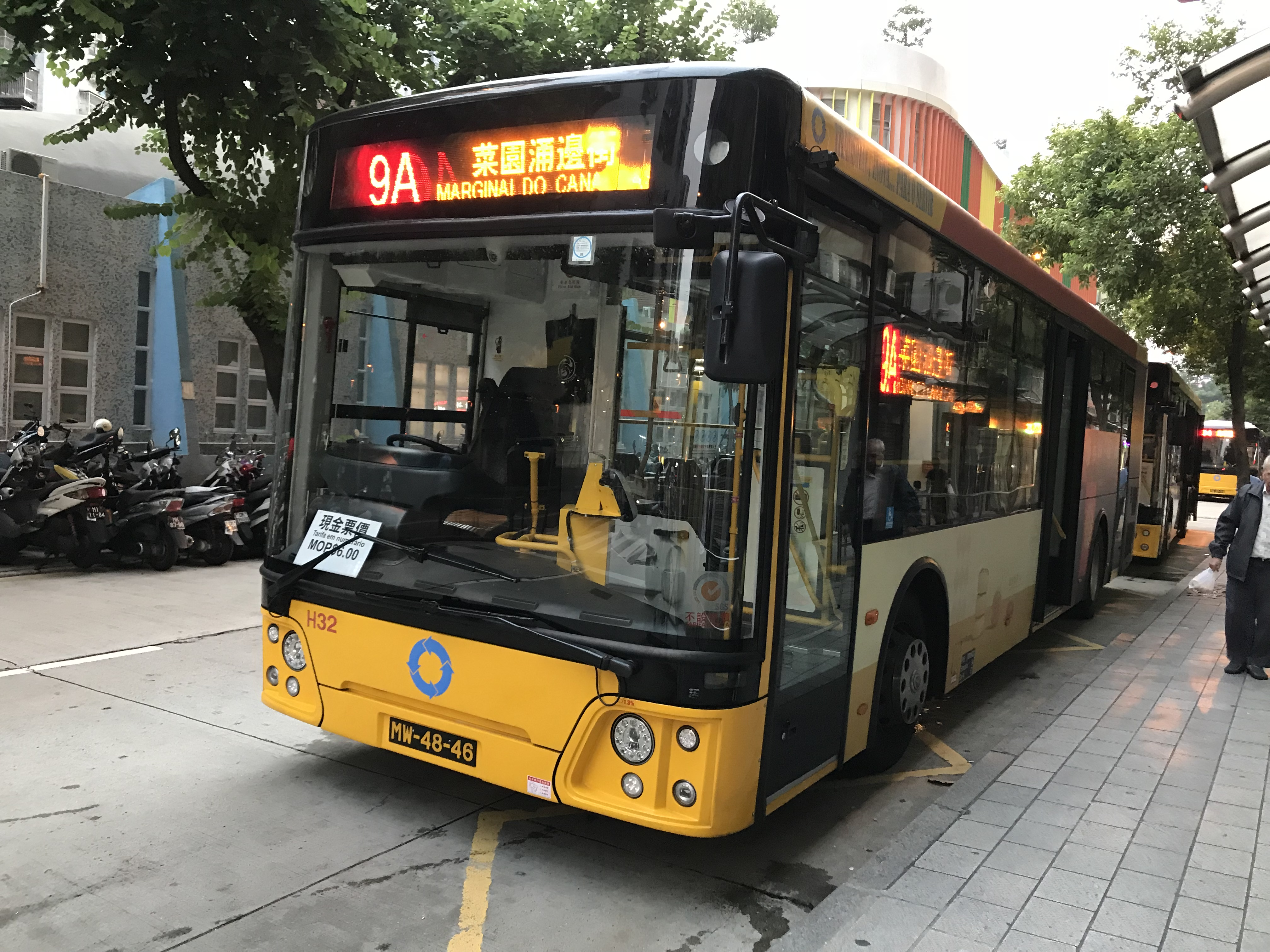 Macau bus 9A